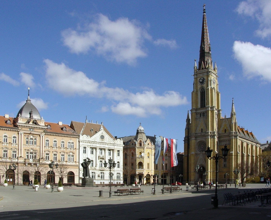 The center of the city.